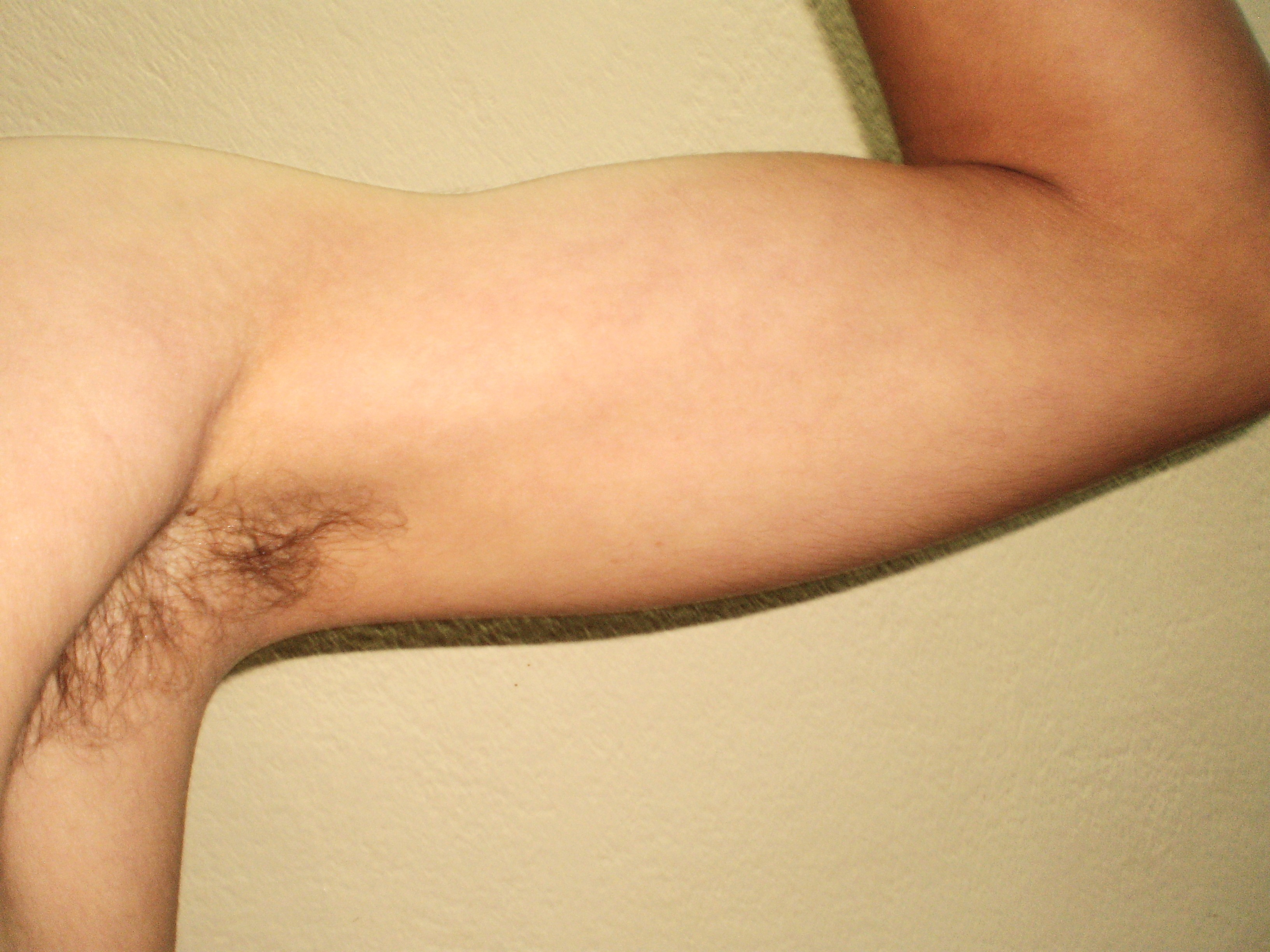 axila